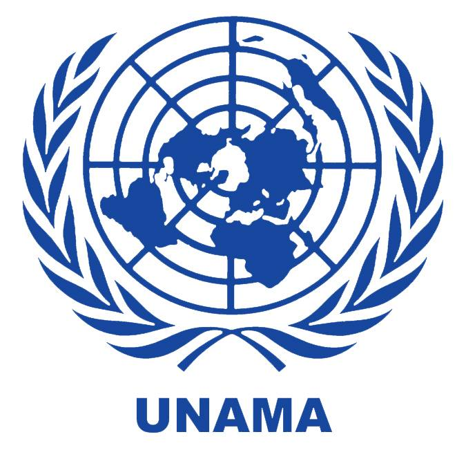 Official Logo of the United Nations Assistance Mission in Afghanistan (UNAMA)